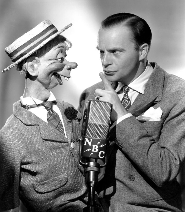 Photo of Edgar Bergen with Mortimer Snerd from the Chase and Sanborn radio program.